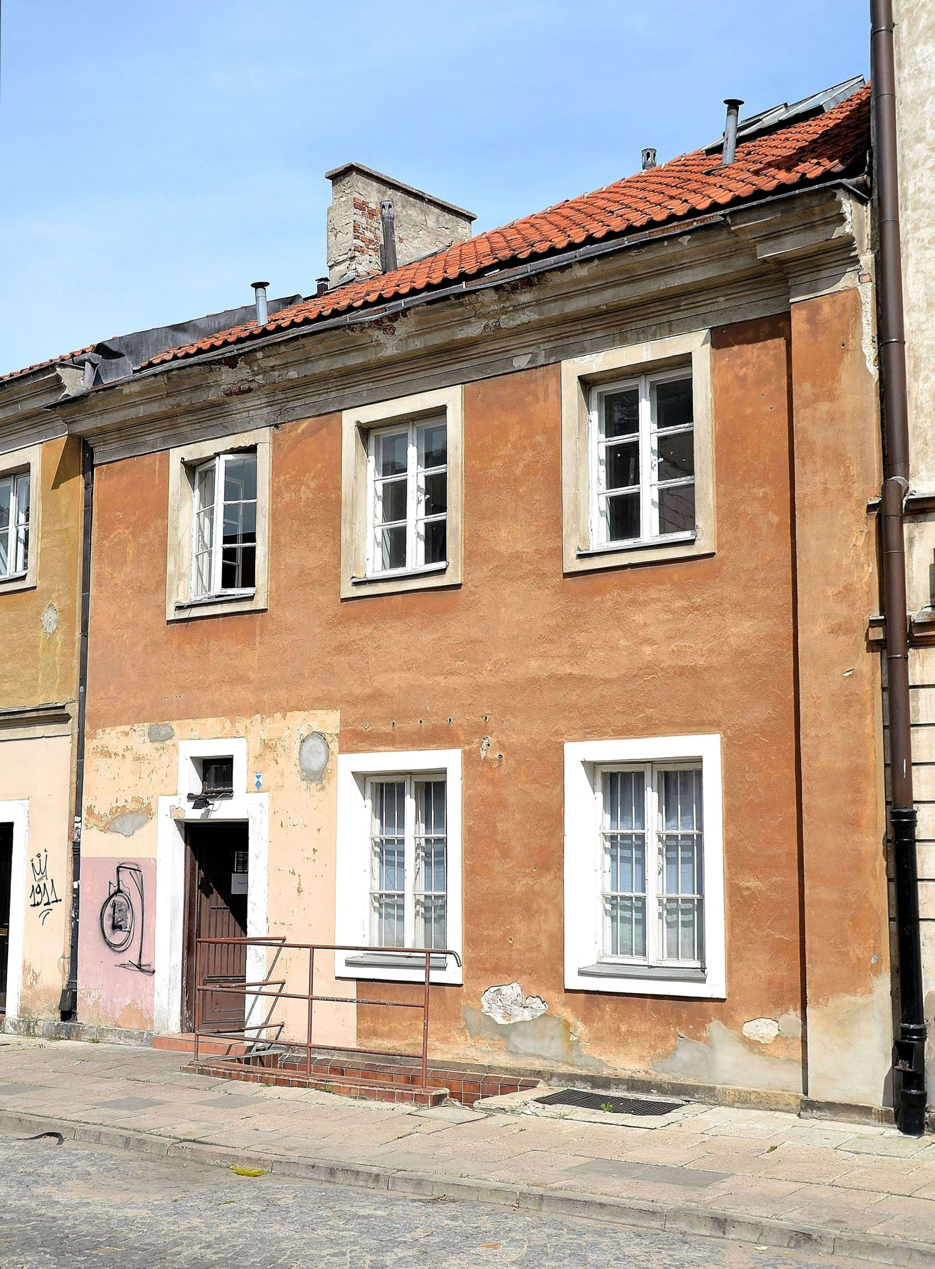 Tenement house at 10 Koźla Street in Warsaw (listed in the Register of Historic Monuments on 1.07.1965, reference no. 692)